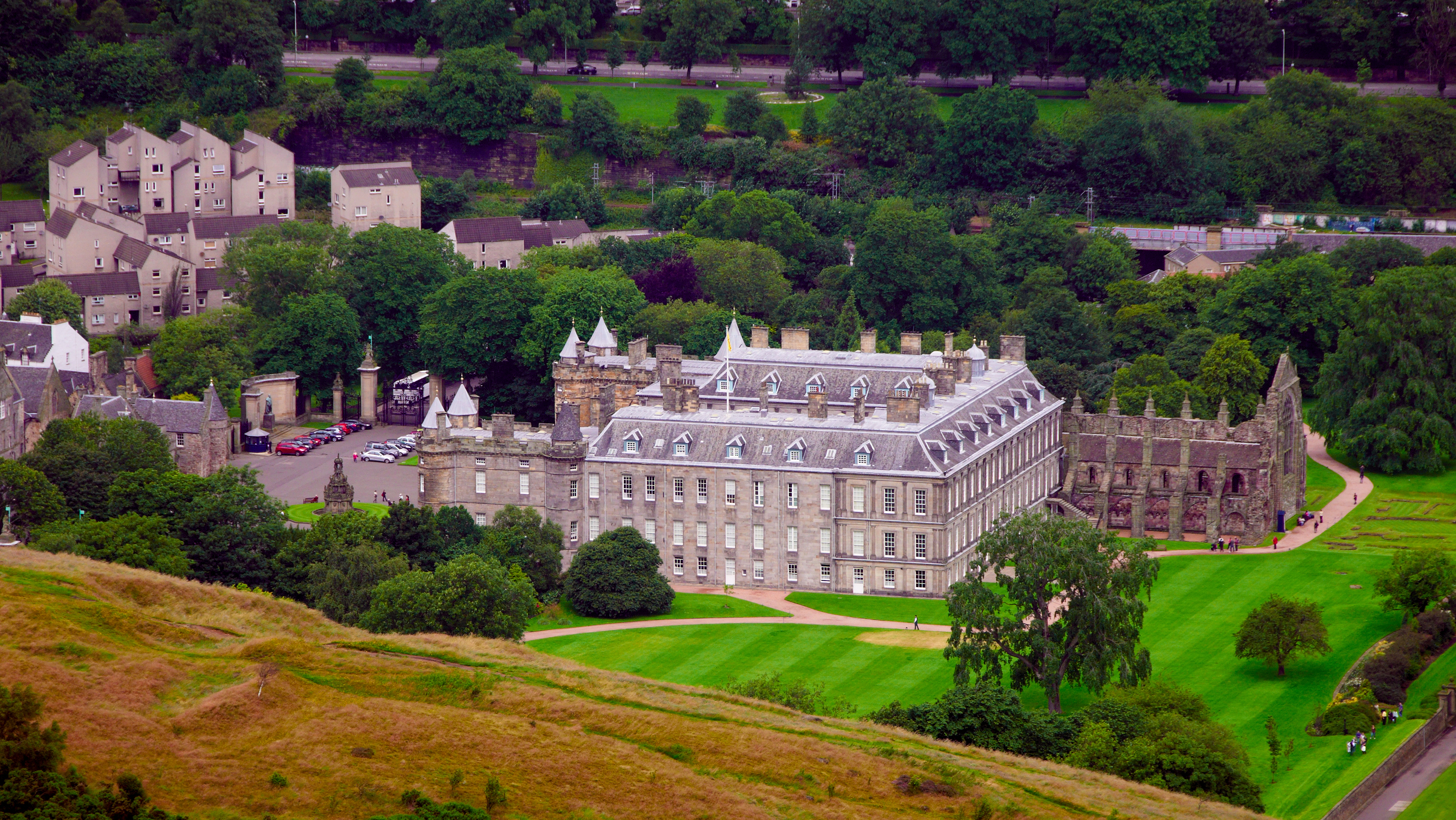 Holyrood Palace in Edinburgh/Scotland, taken from Arthurs Seat